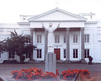 Image of Mount Oliver Convent